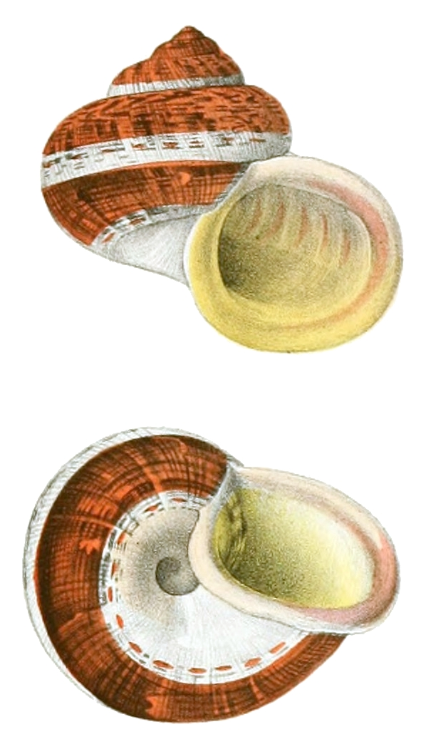 Drawing of the shell of Cyclophorus fulguratus